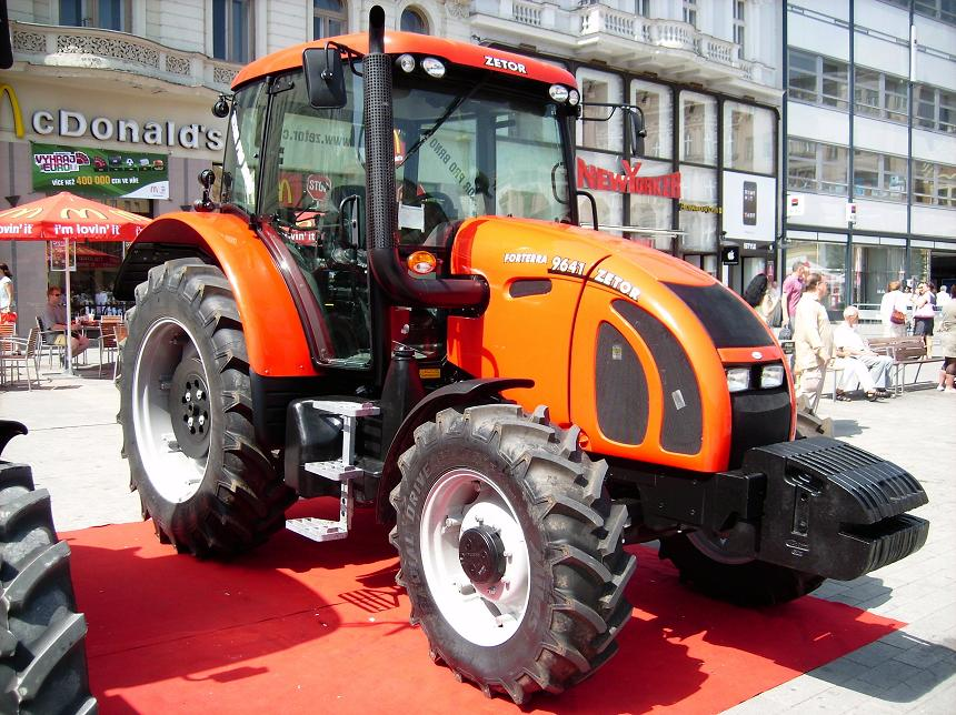 Zetor Forterra 9641